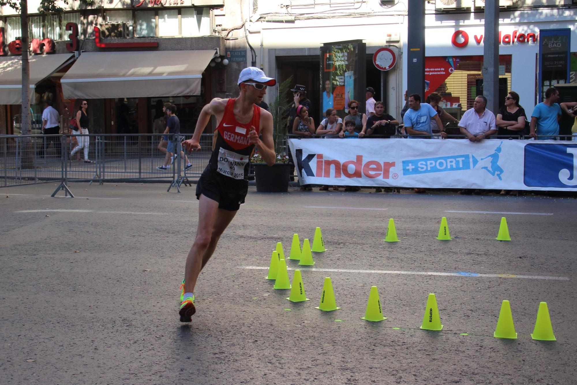 20-Carl Dohmann (GER) in the 11th European Cup Race Walking Murcia ESP 17 May 2015